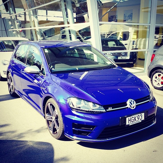 The all new Volkswagen Golf R at our Volkswagen showroom in Christchurch, NZ.